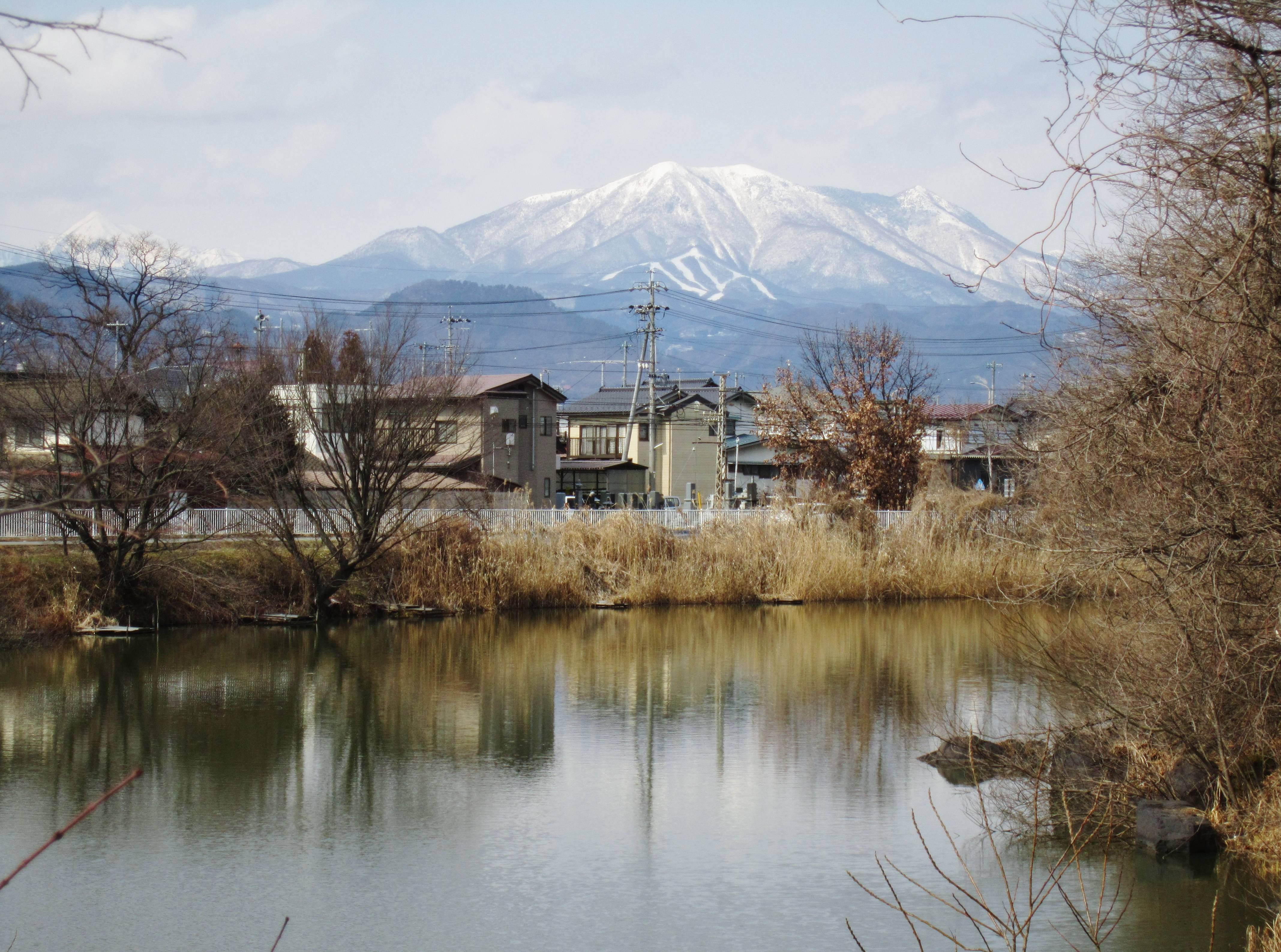 Kanai Pond and Mount Iizuna.